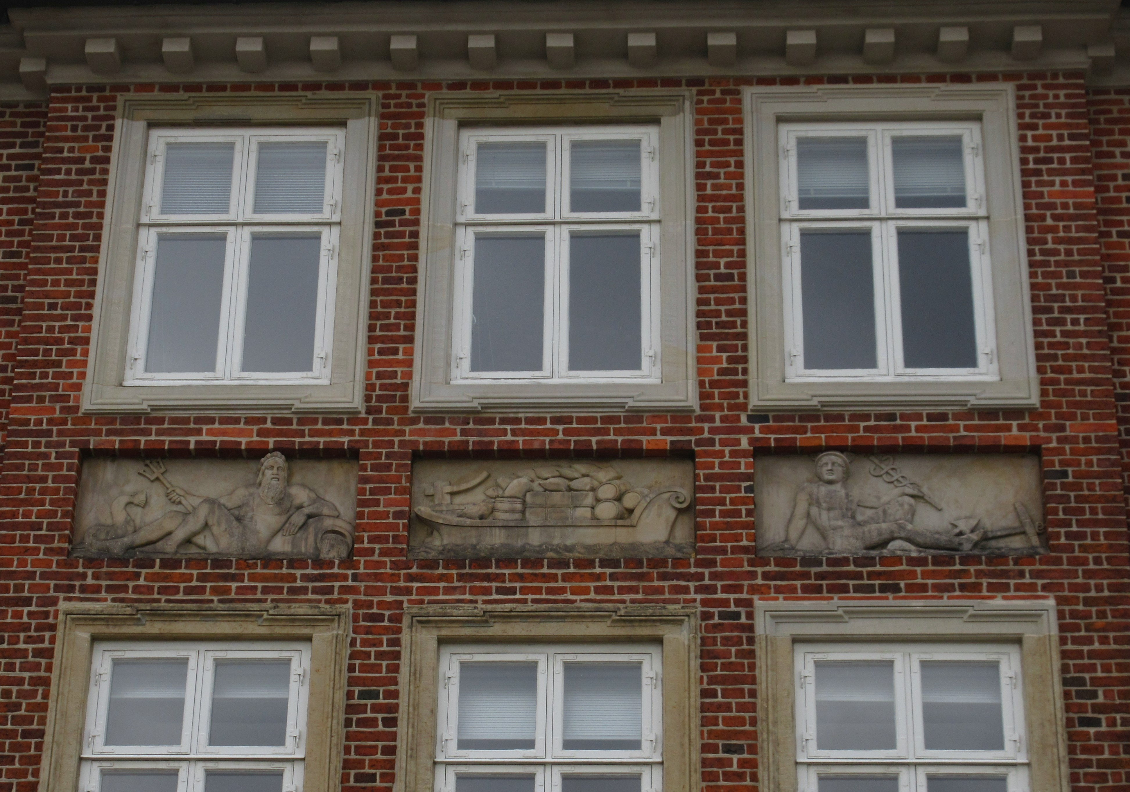 The facade of Nyhavn 63 in Copenhagen, Denmark